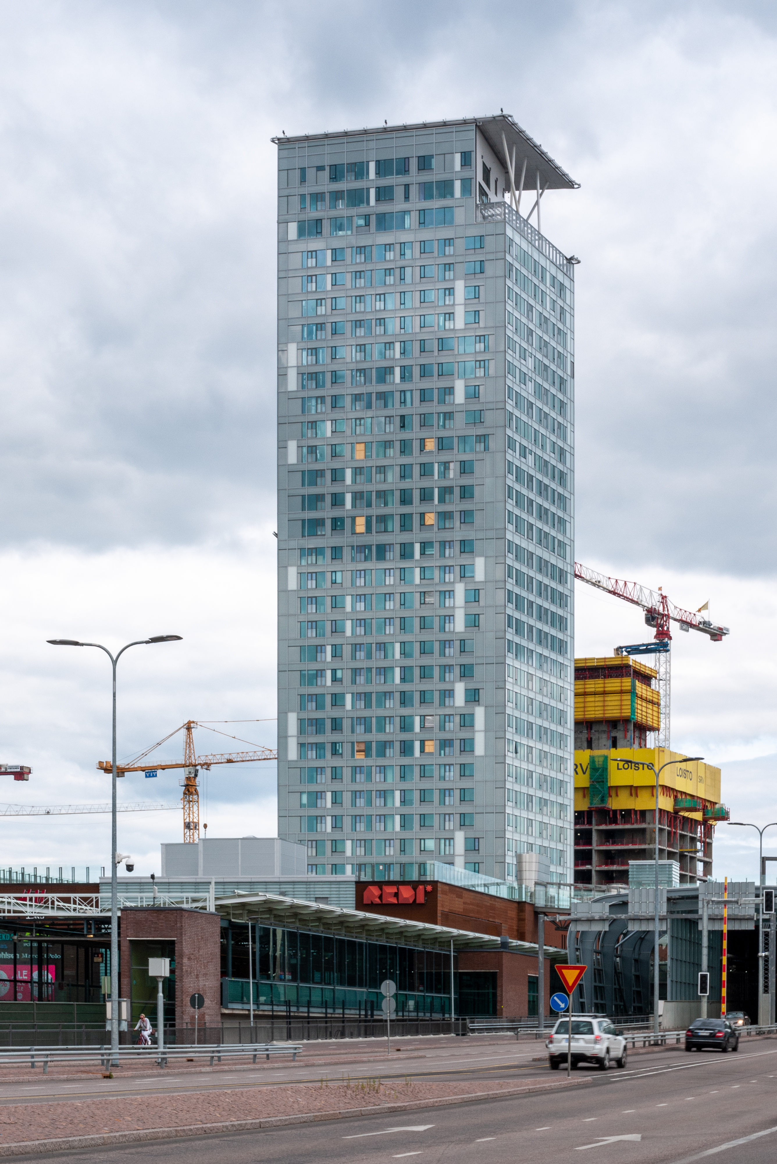 Majakka high rise apartment building under construction in Kalasatama, Helsinki in July 2019.